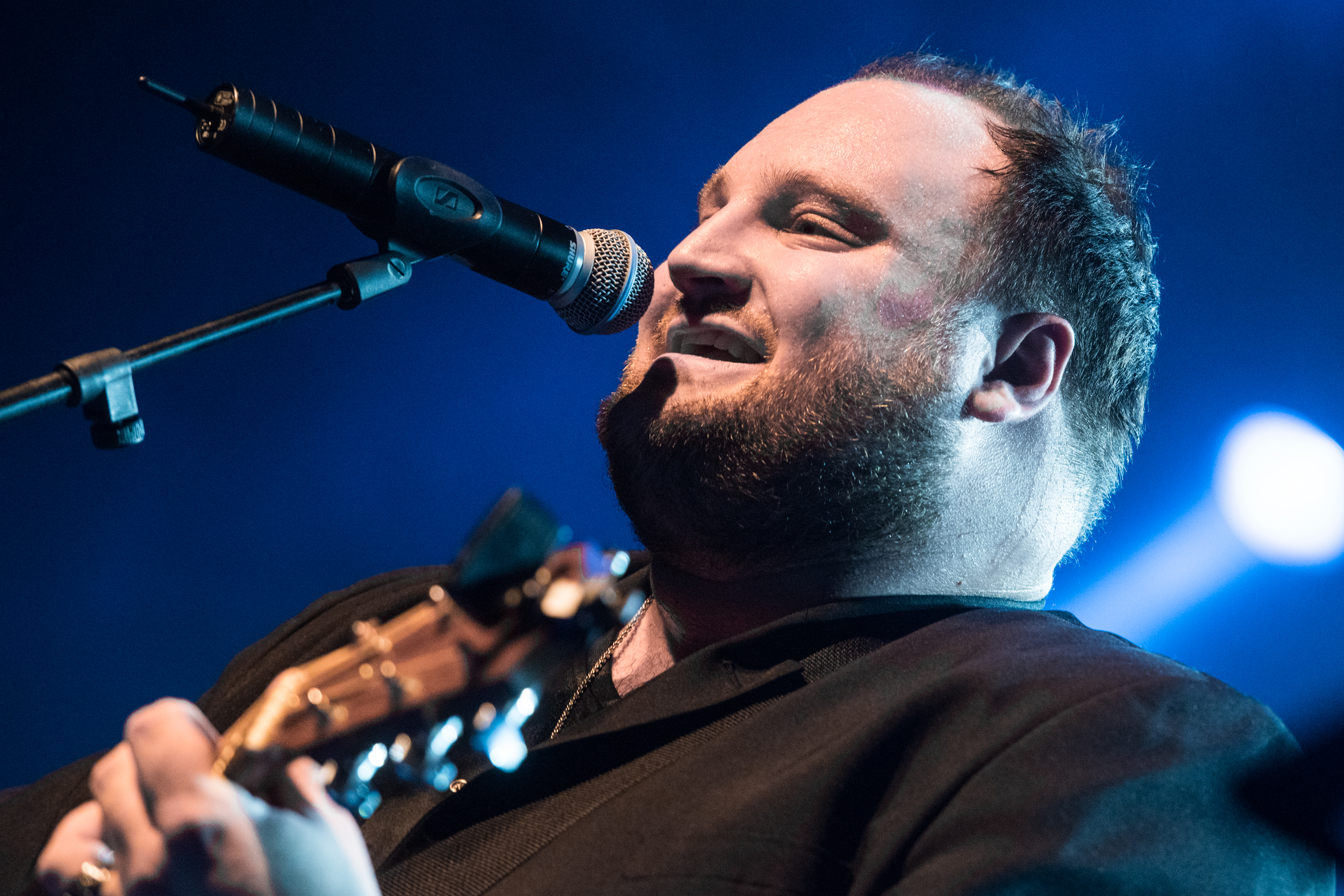 The german singer-songwriter Alex Diehl plays a concert at Batschkapp Frankfurt